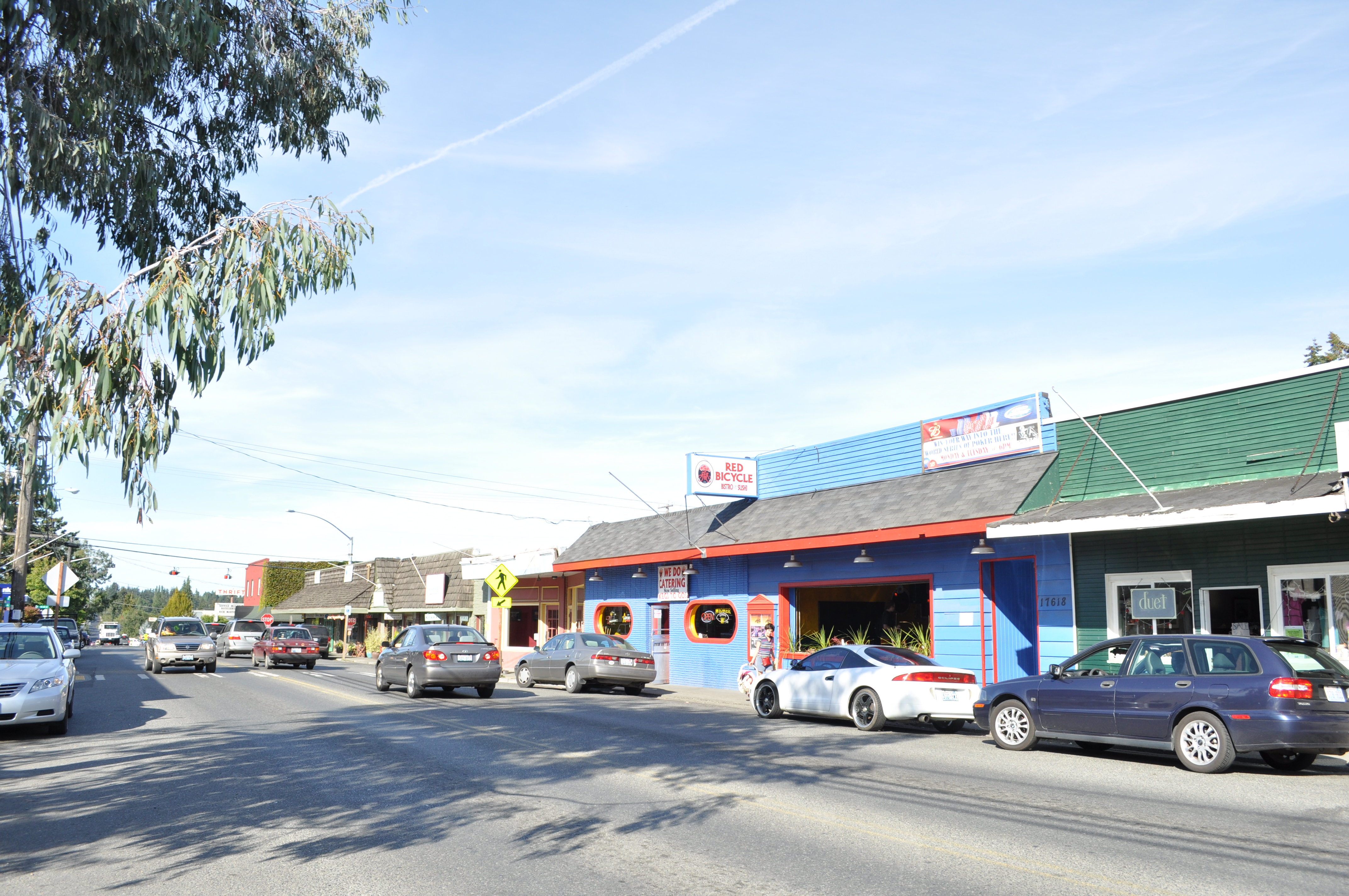 Downtown Vashon, Vashon Island, Washington, along Vashon Highway SW.